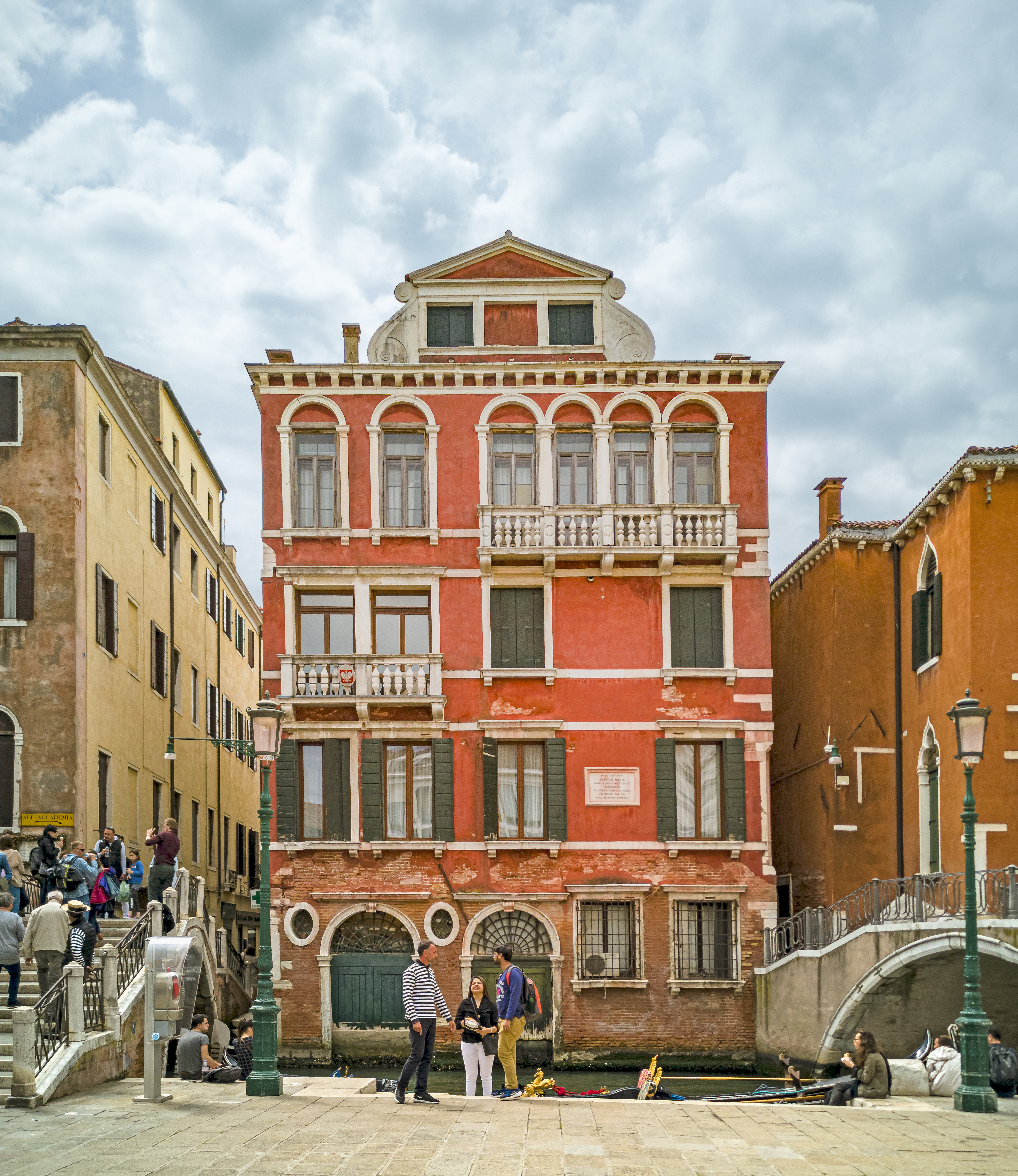 The facade of the house where lived Daniele Manin, on the Rio de San Luca, in Venice.